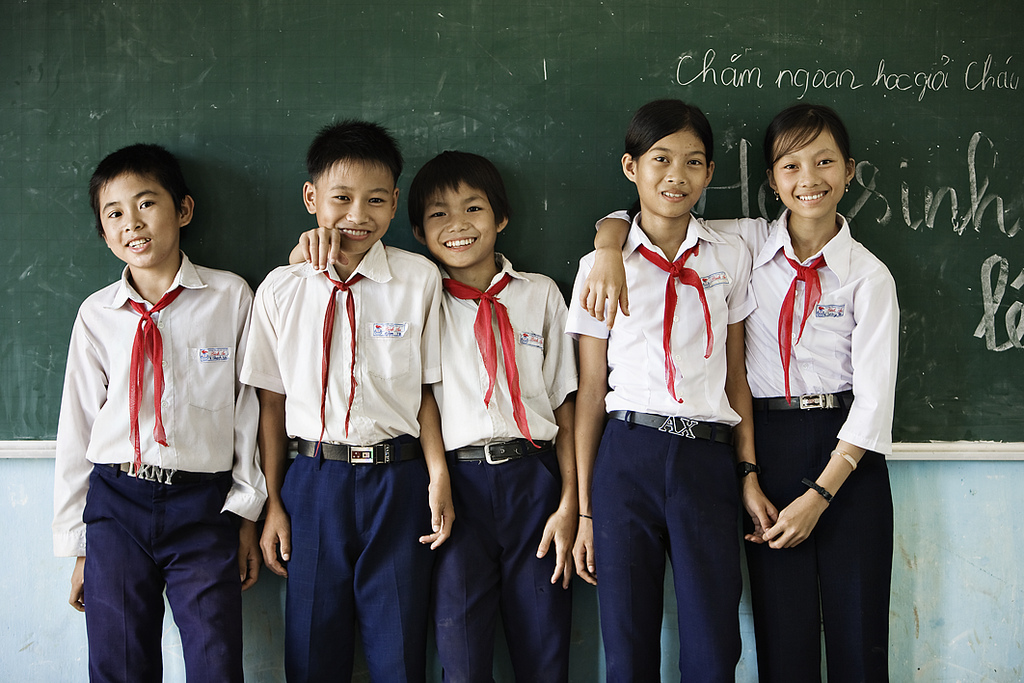 East Meets West Scholarship Program to Enhance Literacy and Learning